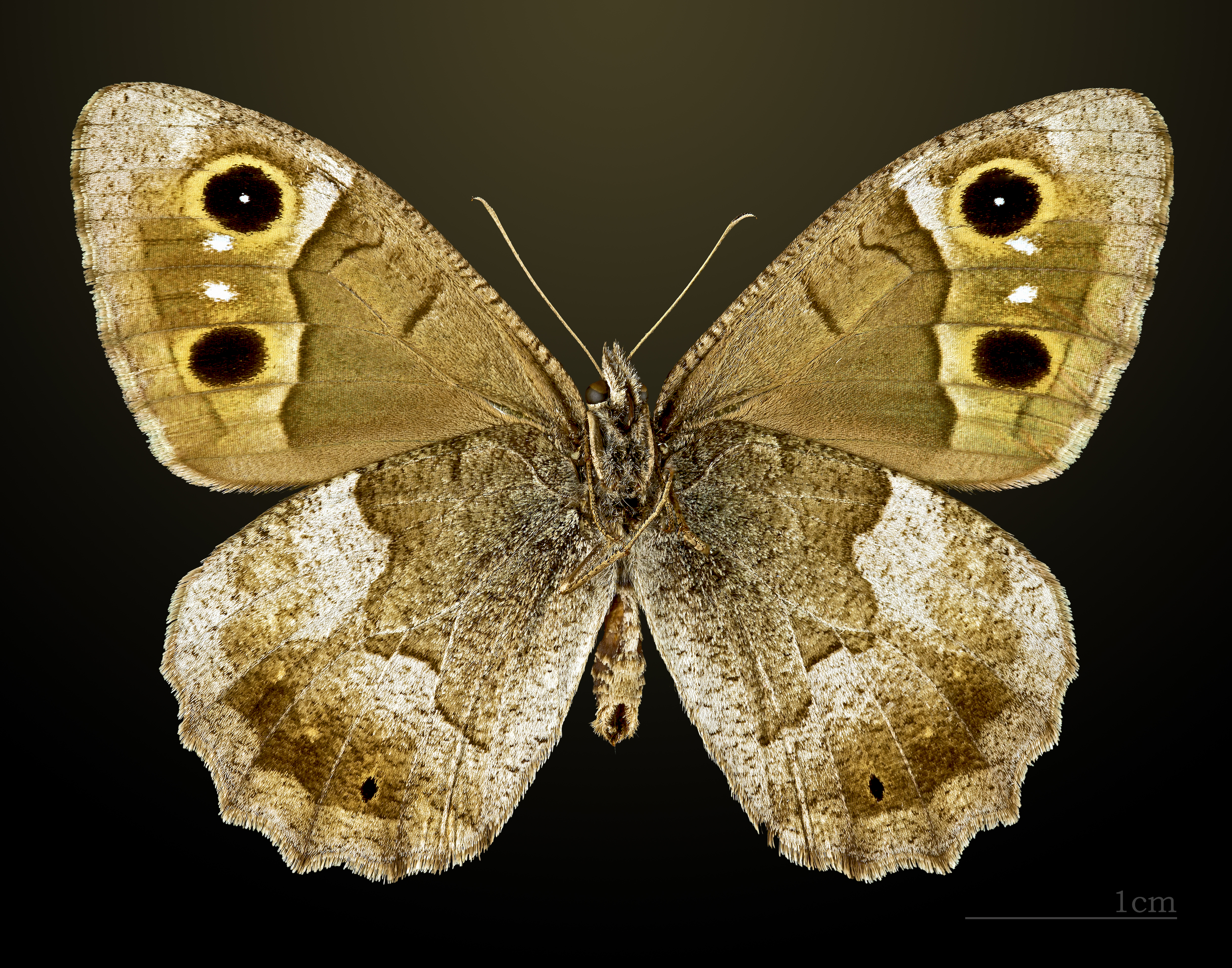 Tree Grayling ♂ - △ Ventral side Locality: Concots, Lot, France